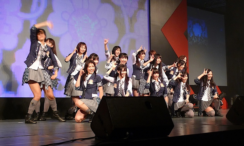 AKB48 performing at the Anime Festival Asia Day 0.